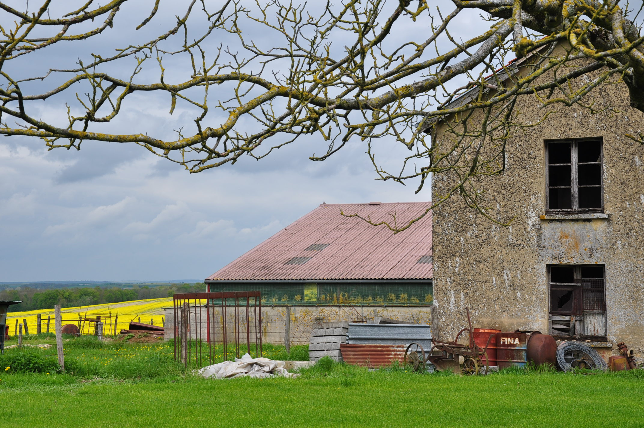 Rural corner in Élise (municipality of Élise-Daucourt, canton Sainte-Ménehould, arrondissement Sainte-Ménehould, Marne department, Champagne-Ardenne region, France).